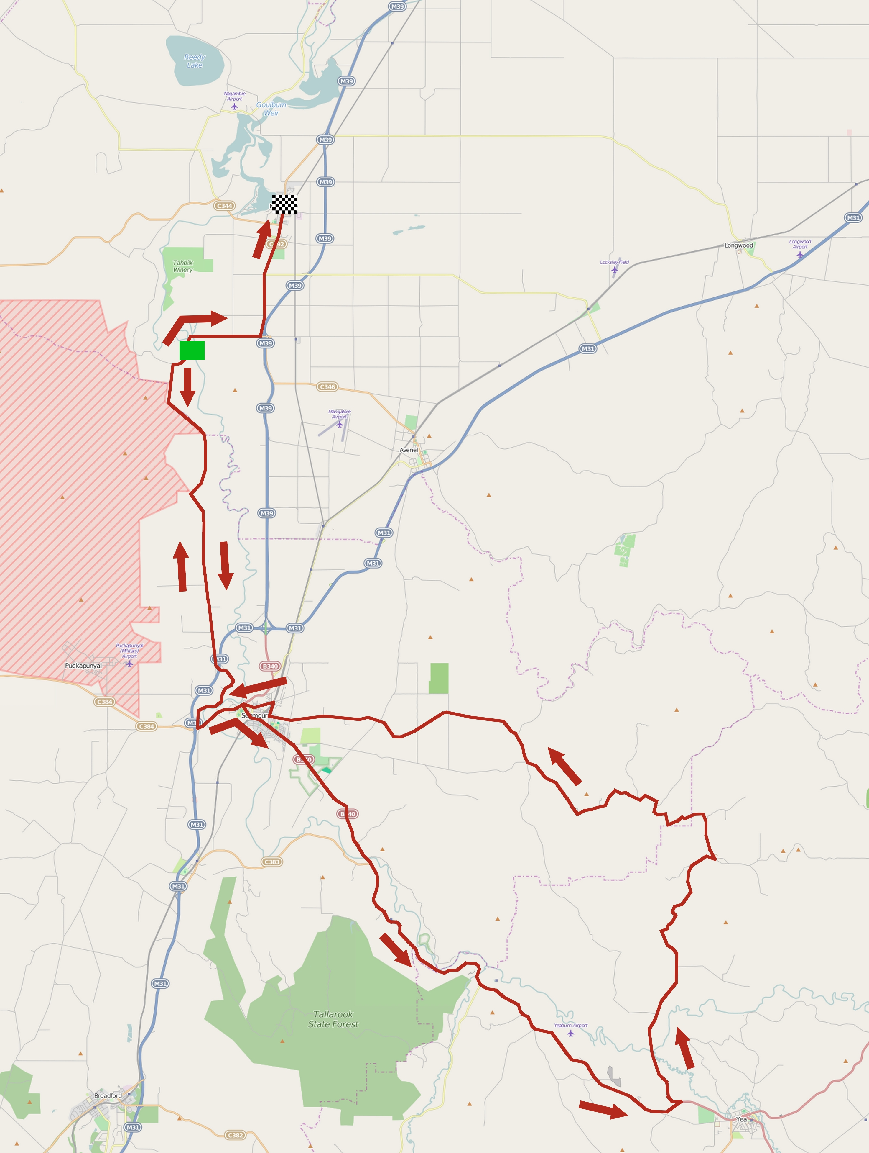 Parcours de la troisième étape du Herald Sun Tour 2015. This map may be incomplete, and may contain errors. Don't rely solely on it for navigation.